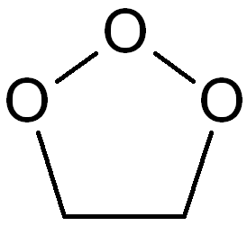 Molozonide